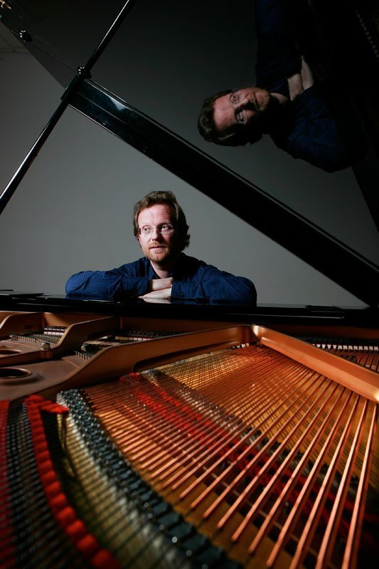 portrait of the Norwegian composer, musician and writer Ståle Kleiberg